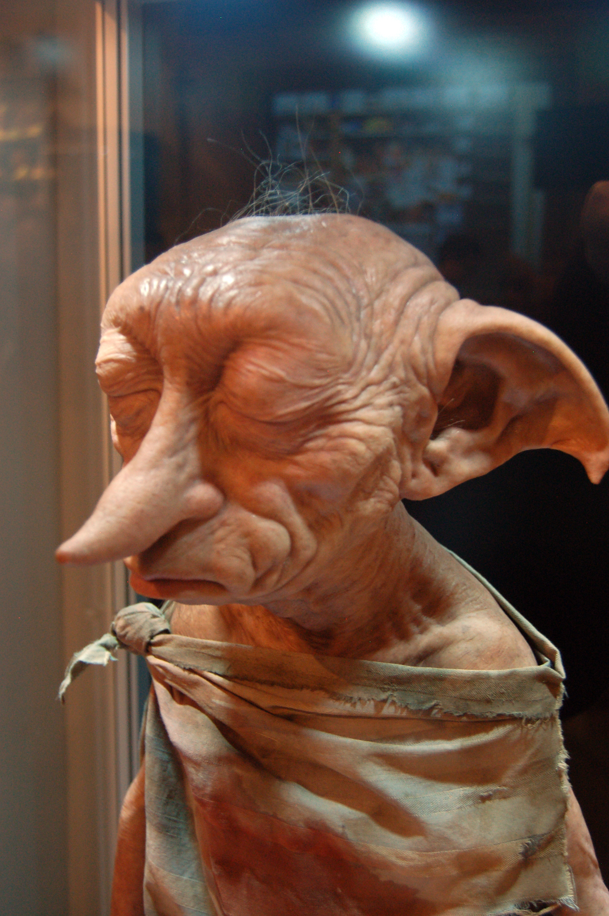 Dobby